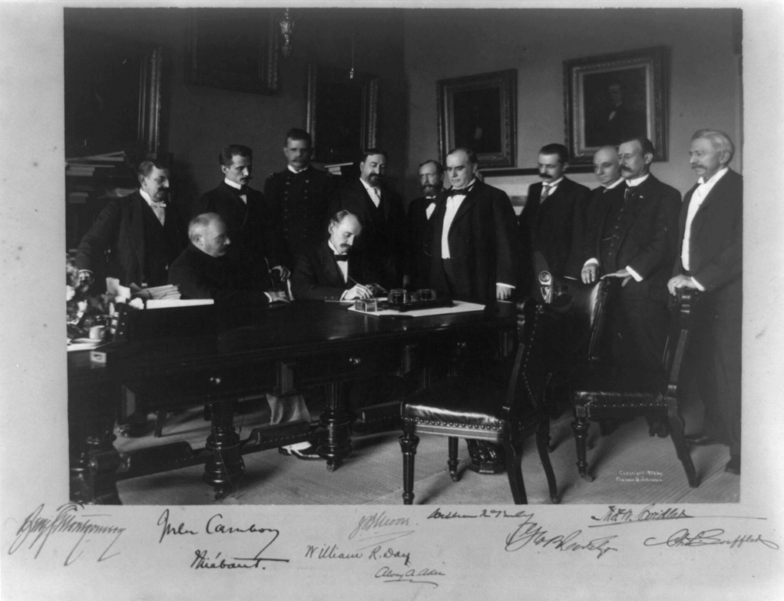 Signing of the peace protocol of the Spanish-American War - left to right: Benjamin Montgomery, Jules Cambon, Thiebout, William R. Day, J. More, Alvey A. Adee, William McKinely, George Cortelyou, Thomas Cridler and Charles Boeffled?. Additional reference: The Evening Bulletin, 1898-08-29